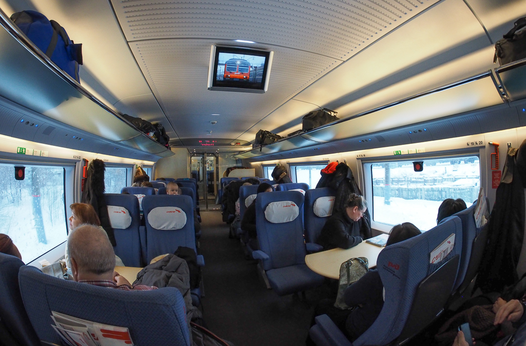 is a Russian gauge high speed electric express train. The design is part of the Siemens Velaro family.